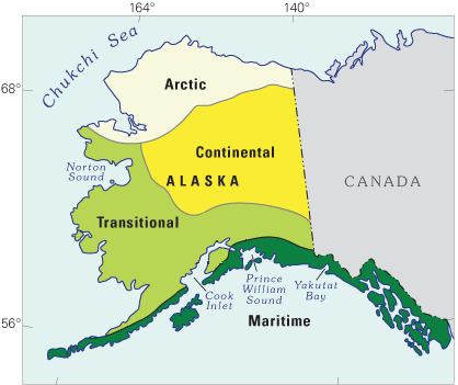 Schematic map showing a classification of modern-day climate zones in Alaska. This map is from a USGS website:Latest Wisconsin Deglaciation and Postglacial Vegetation Development in the Turnagain Arm Area, Upper Cook Inlet, South-Central Alaska